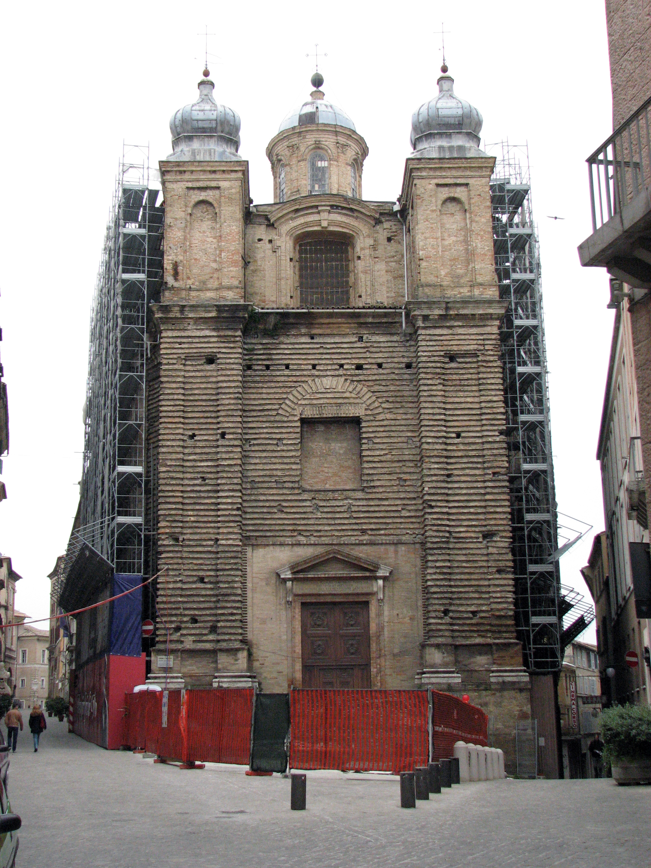 Church of St Philip Neri in Macerata